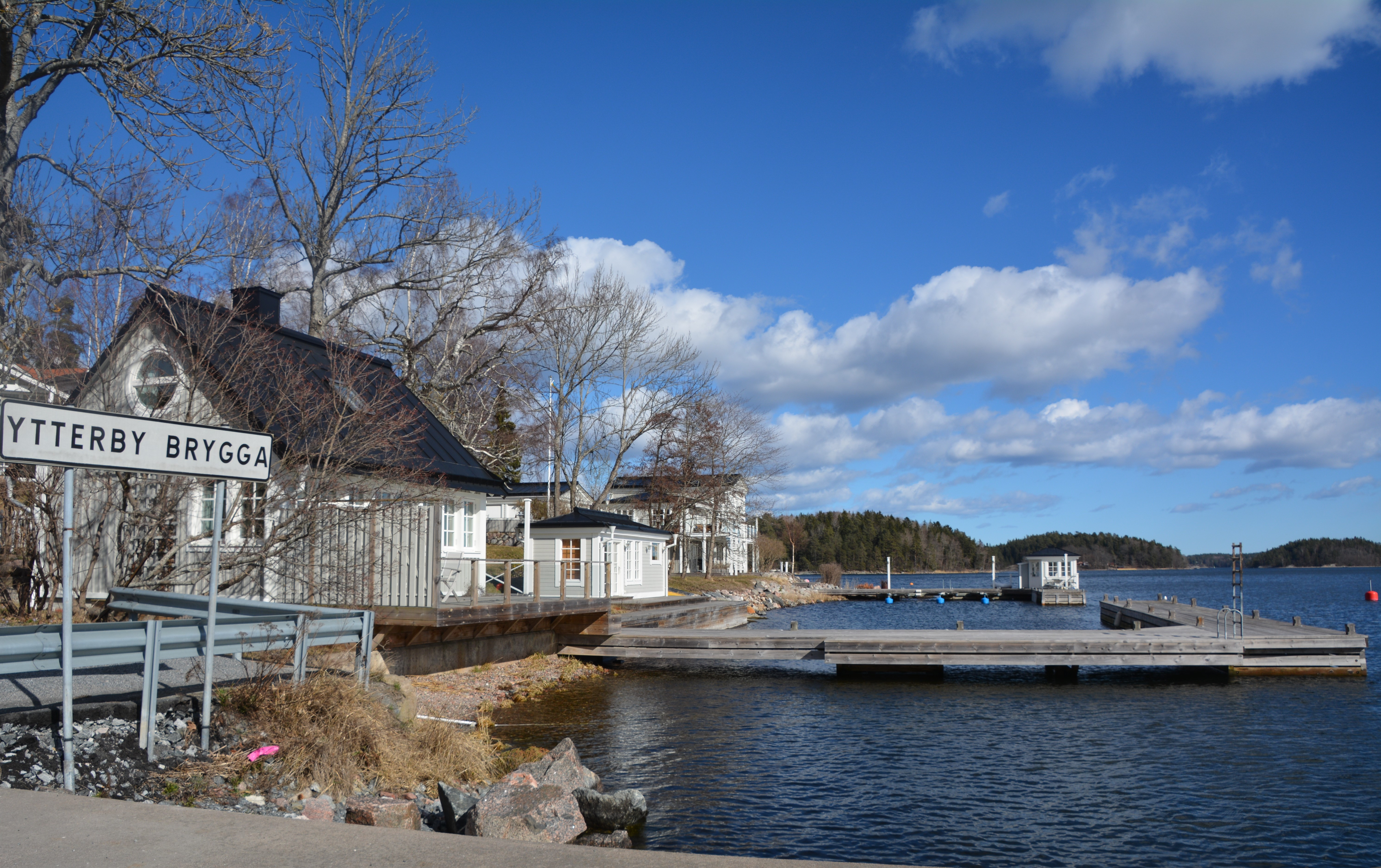 Ytterby brygga